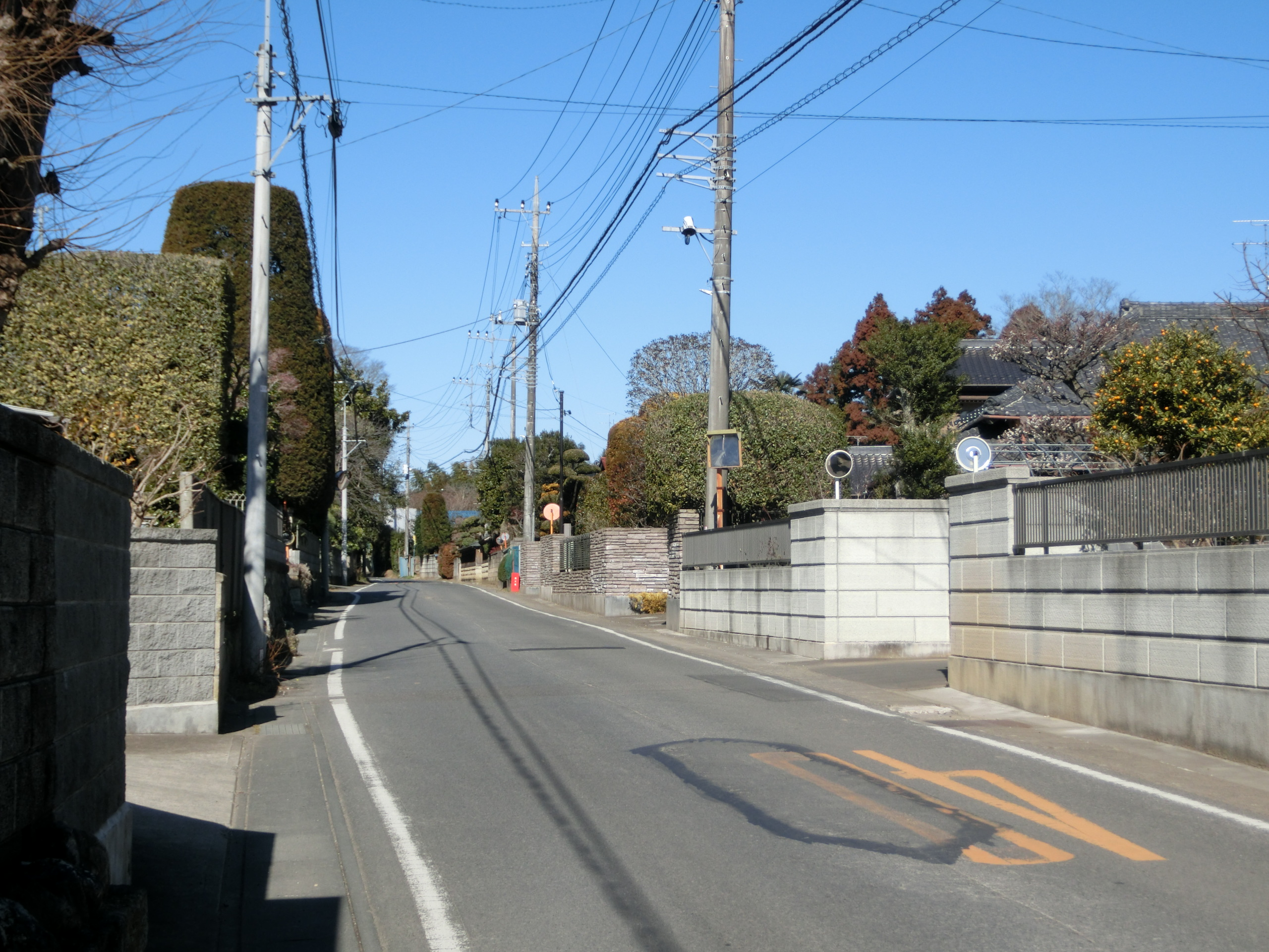 Wakashiba-shuku